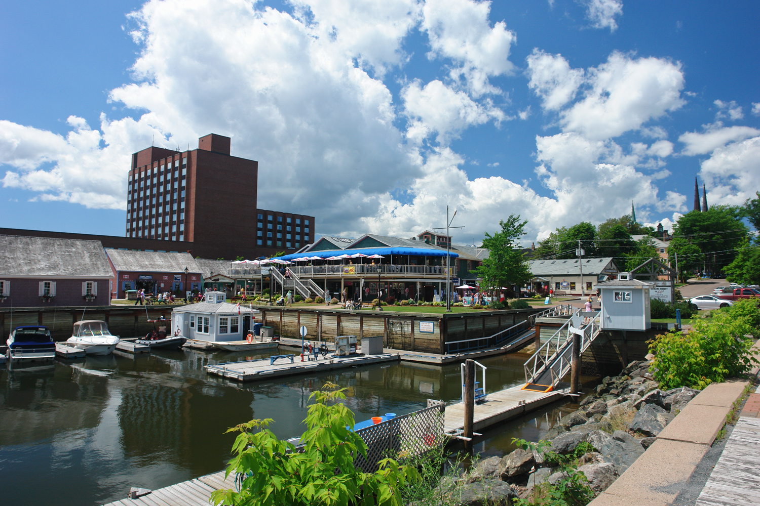 This is the marina in Charlottetown, PEI. I took this photo in July 2008. Sam.